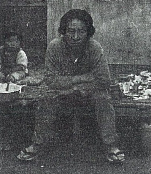 Isao MIZUTANI (1922-2005), Japanese contemporary artist